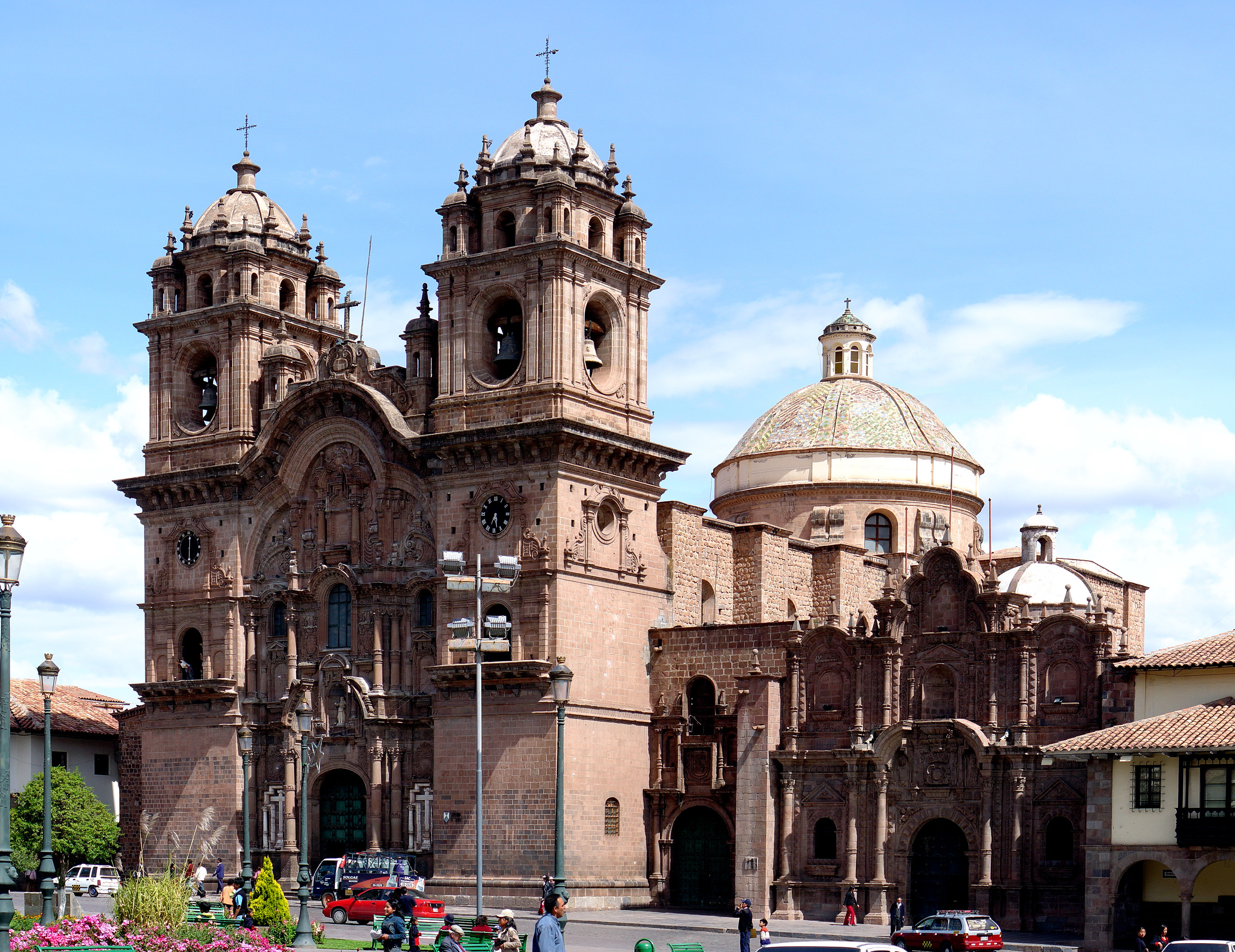 Compania de Jesus Church in Cusco, Peru